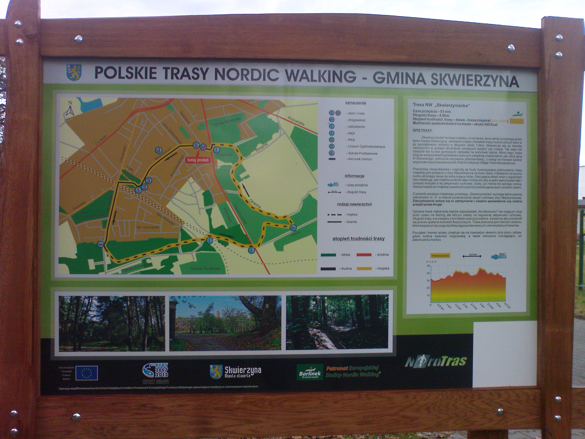 Nordic walking route in Skwierzyna, Lubuskie, Poland